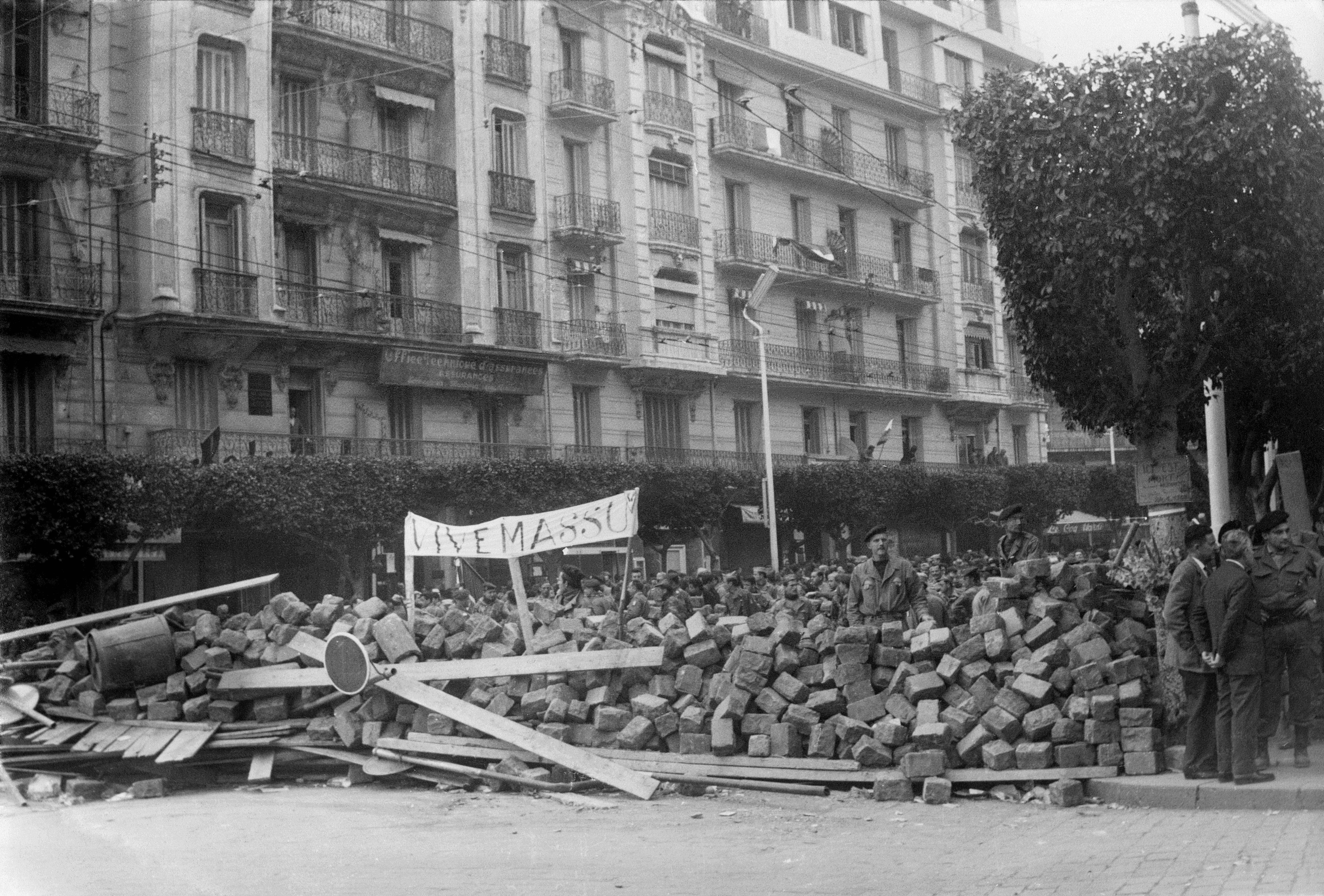 Baricades set up during the Algerian War of Independence. January 1960. Street of Algier.